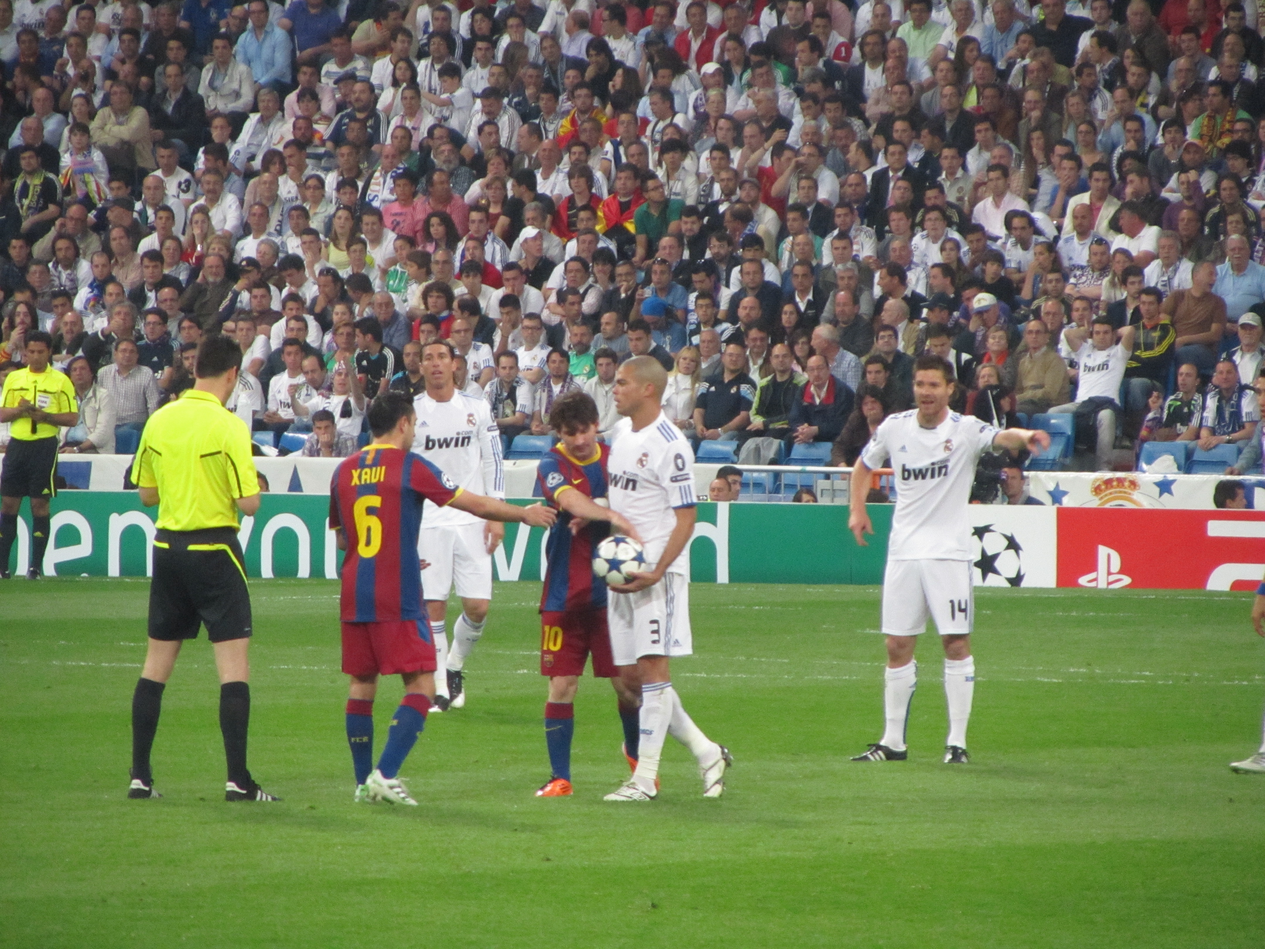 Pepe and Messi during the first 2011 European Champions League semi-finals in Madrid, Spain.